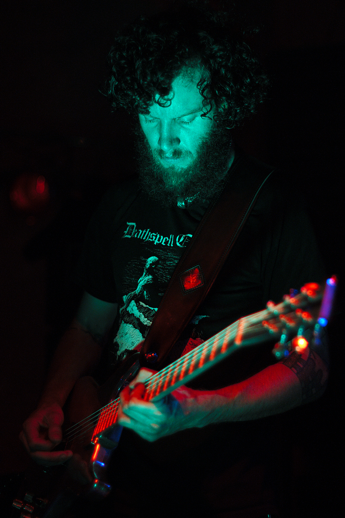 View in my concert gallery.